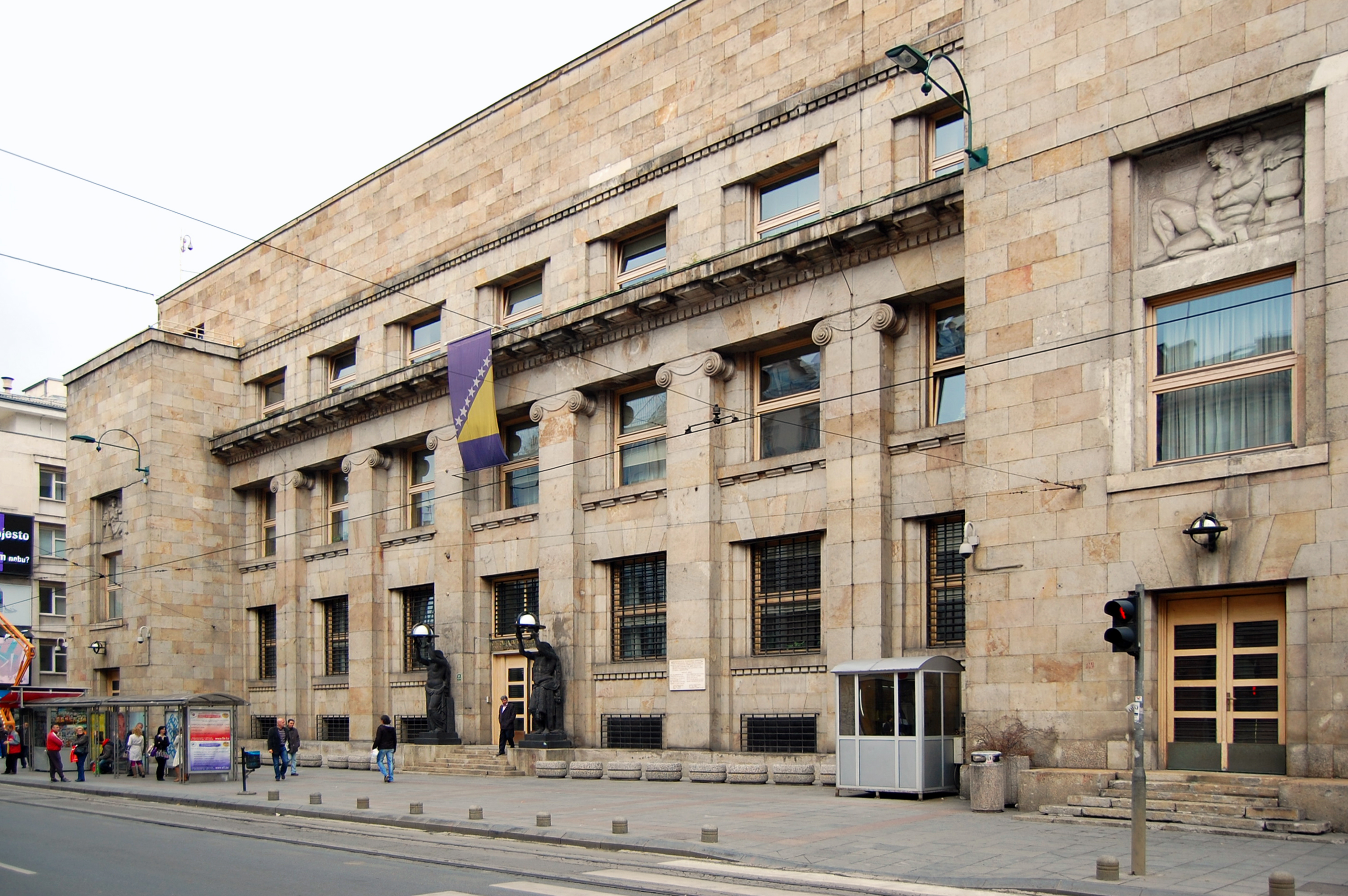 Tram stop Banka in Sarajevo